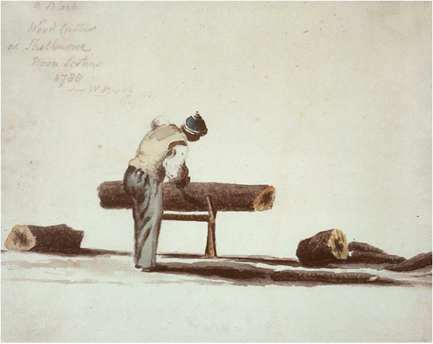 African Nova Scotian By Captain William Booth, 1788